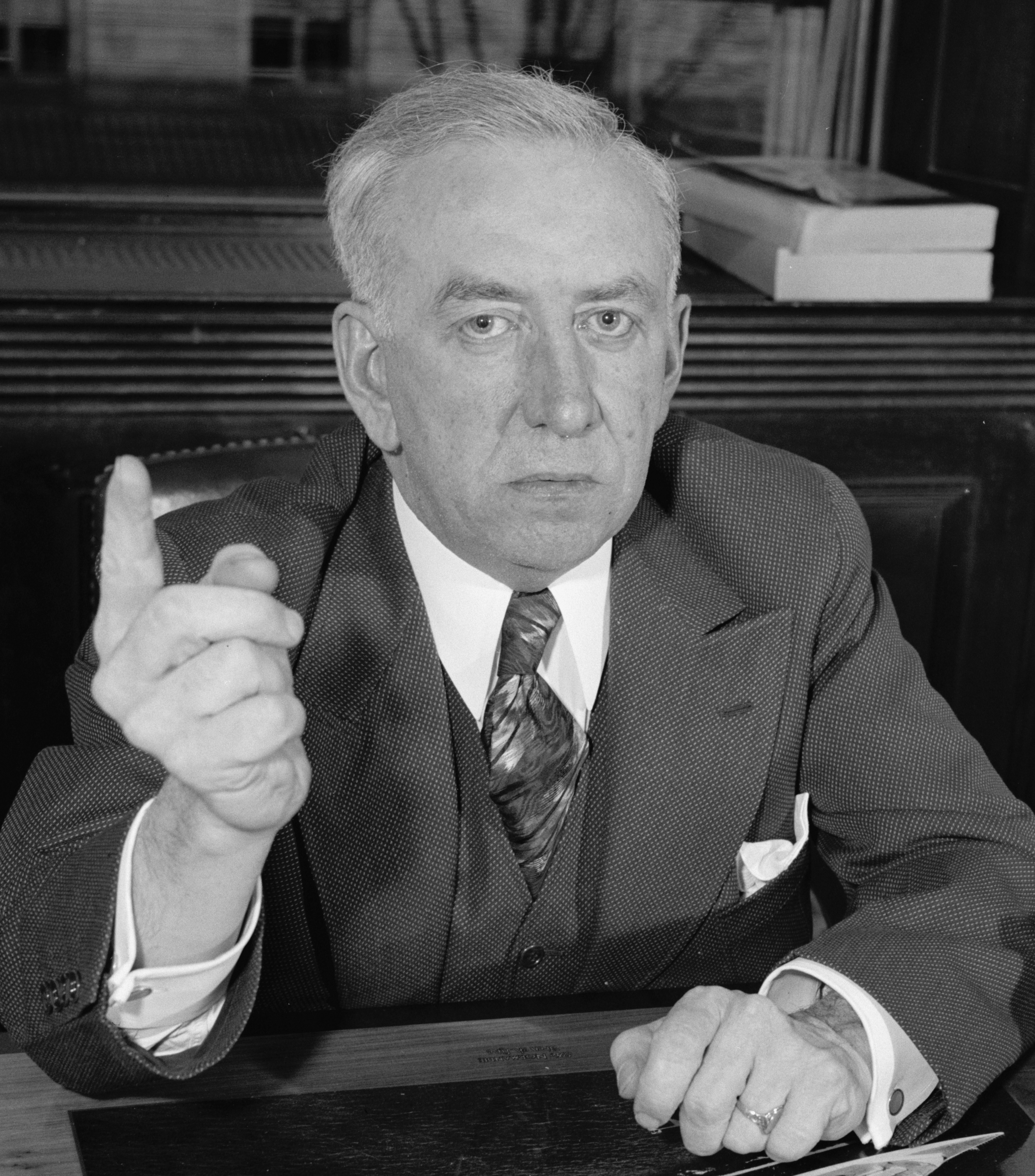 Martin L. Sweeney, congressman from Cleveland, Ohio.